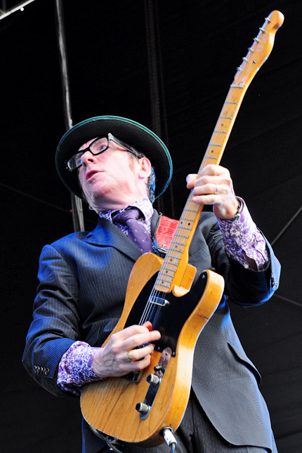 West Coast Blues N Roots Festival 2011